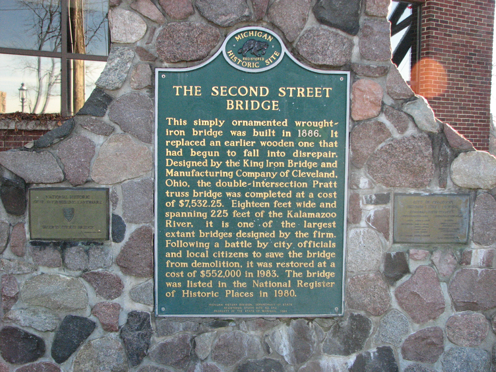 2nd Street Bridge information sign in Allegan, MI. author: user-pagan22, no copyright laws applicable